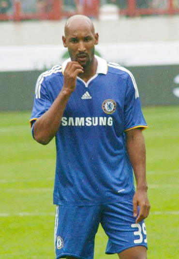 Nicolas Anelka